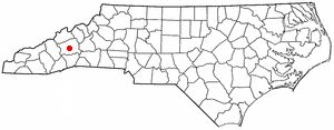 Category:North Carolina Dot Maps